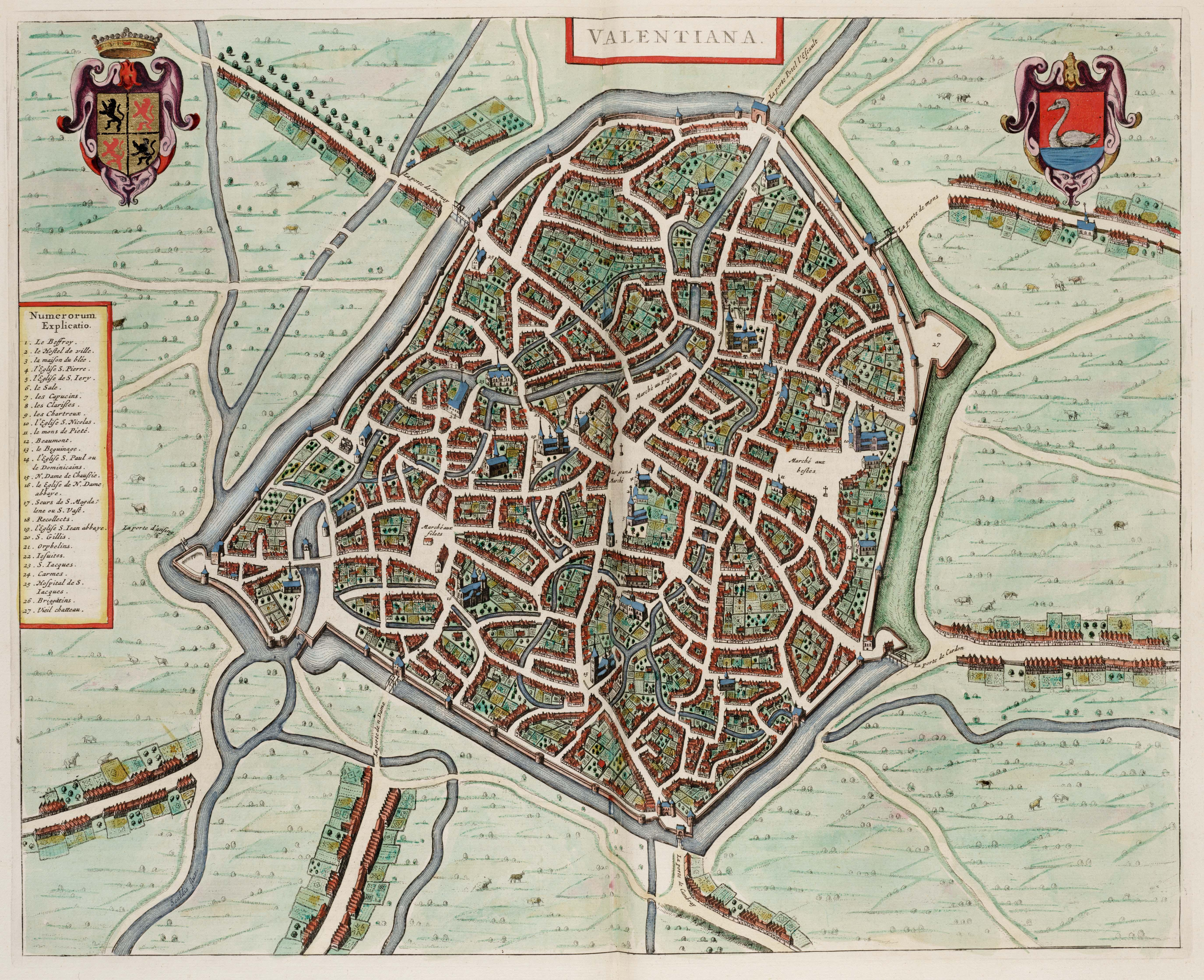 Map of Valenciennes.